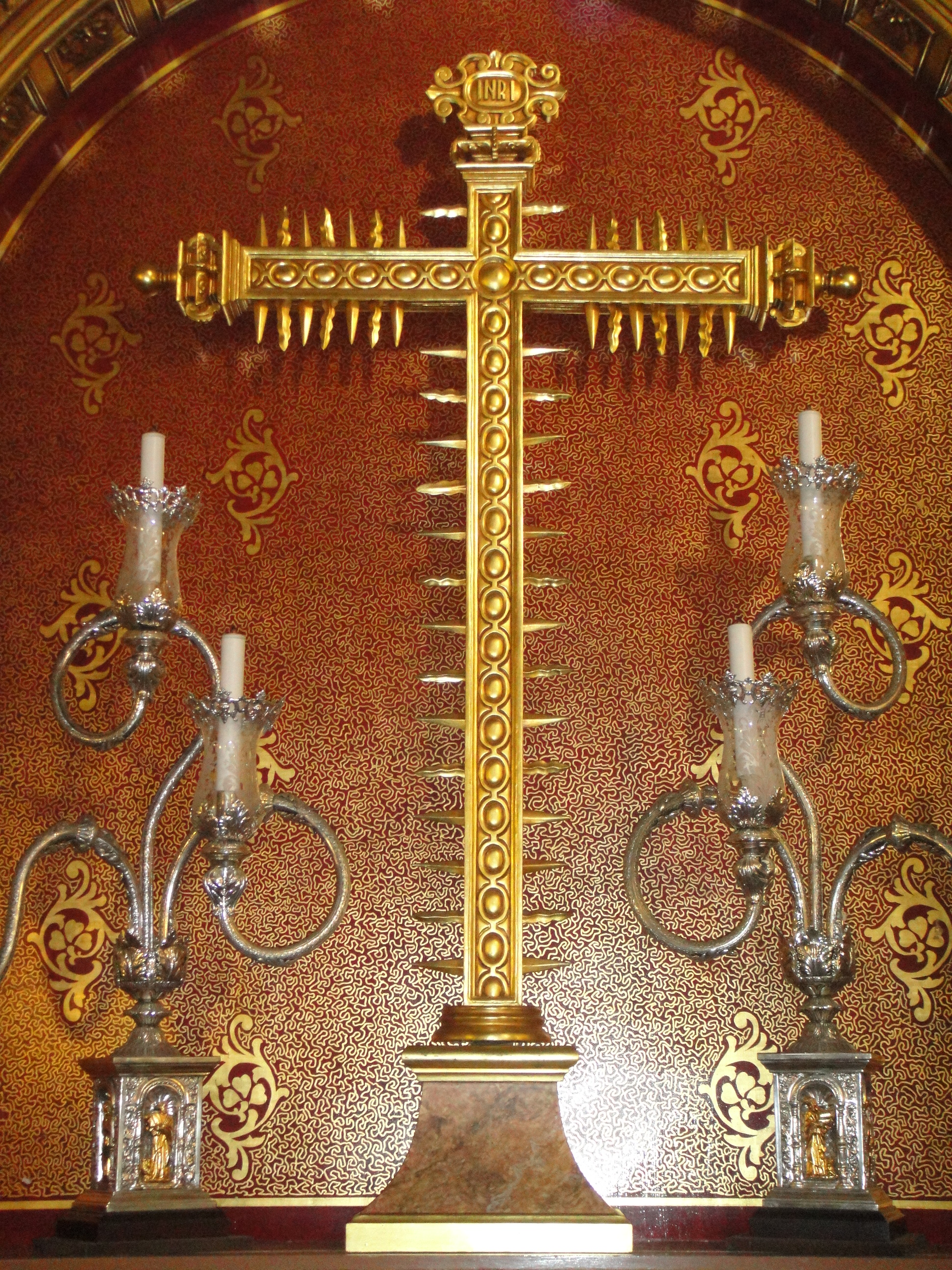 Church of St. Michael. Villanueva de Córdoba. (Spain).